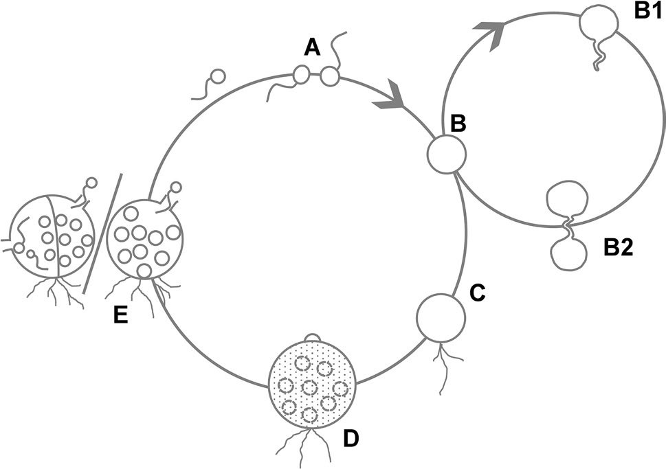 Lifecycle of Batrachochytrium species in culture. In culture Batrachochytrium dendrobatidis continues the life cycle stages A–E, while in Batrachochytrium salamandrivorans additional life cycle stages B1-B2 are observed: (A) flagellated motile zoospores; (B) encysted zoospore; (B1) germling with germtube; (B2) transfer of the cell contents into a newly formed thallus; (C) zoospore cyst with rhizoids; (D) immature sporangium; (E) mature monocentric zoosporangium with discharge tube (at the right), colonial thallus containing several sporangia, each with their own discharge tube (at the left).